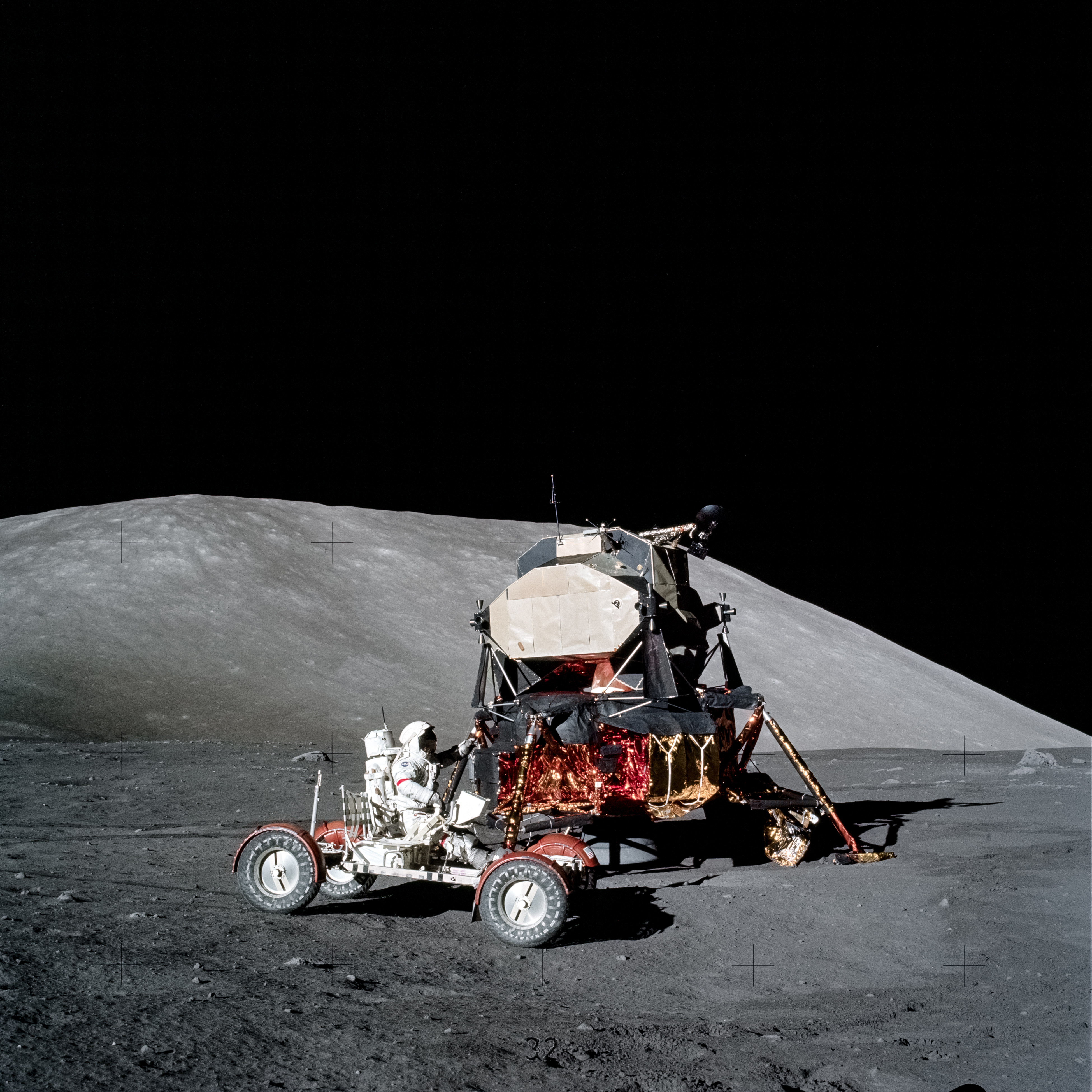 Apollo 17 This picture shows Gene Cernan passing between Jack Schmitt and the LM during the initial test drive of the lunar rover. Note the raised geopost behind the seats